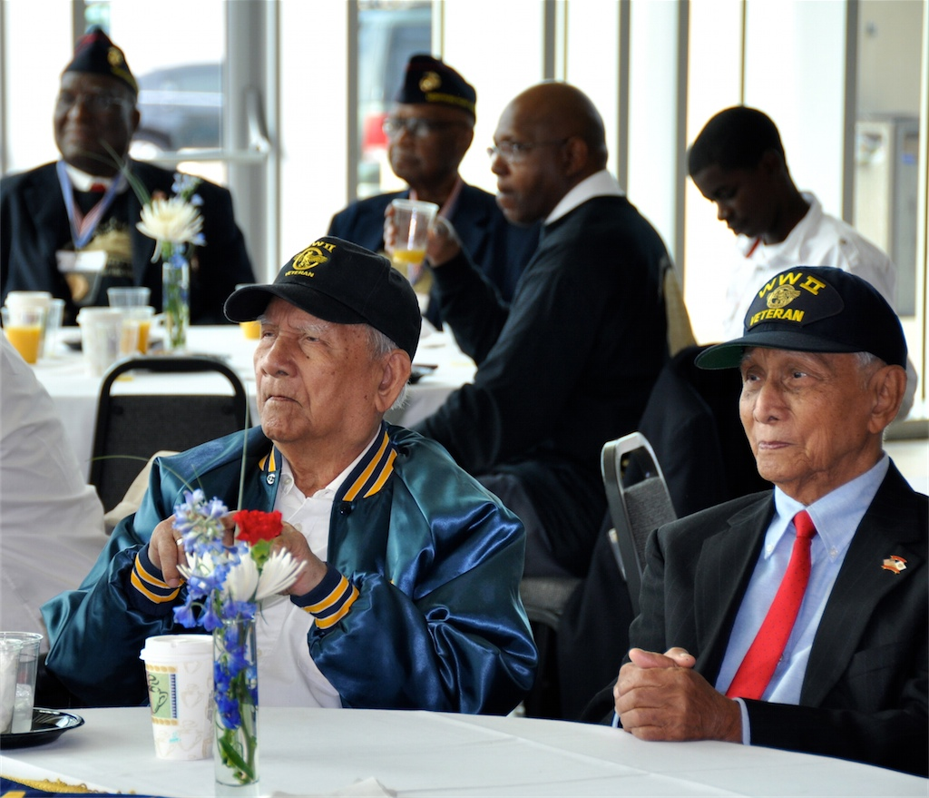 Filipino WW II Veterans These World War II veterans fought at the battle of Bataan in the Philippines. The U.S. Army Corps of Engineers participated in the Veterans Day Parade Nov. 12, 2012 in downtown Jacksonville, Fla. Capt. Shawn Jones, project manager at the Jacksonville district, joined in the parade with his daughter. Capt. Jones works on the Picayune Strand Restoration project. The parade featured more than 4,000 participants including grand marshals, senior military officials, active-duty and retired military units, veterans groups, local high school marching bands, military organizations, decorative floats, giant balloons, JROTC units and more.